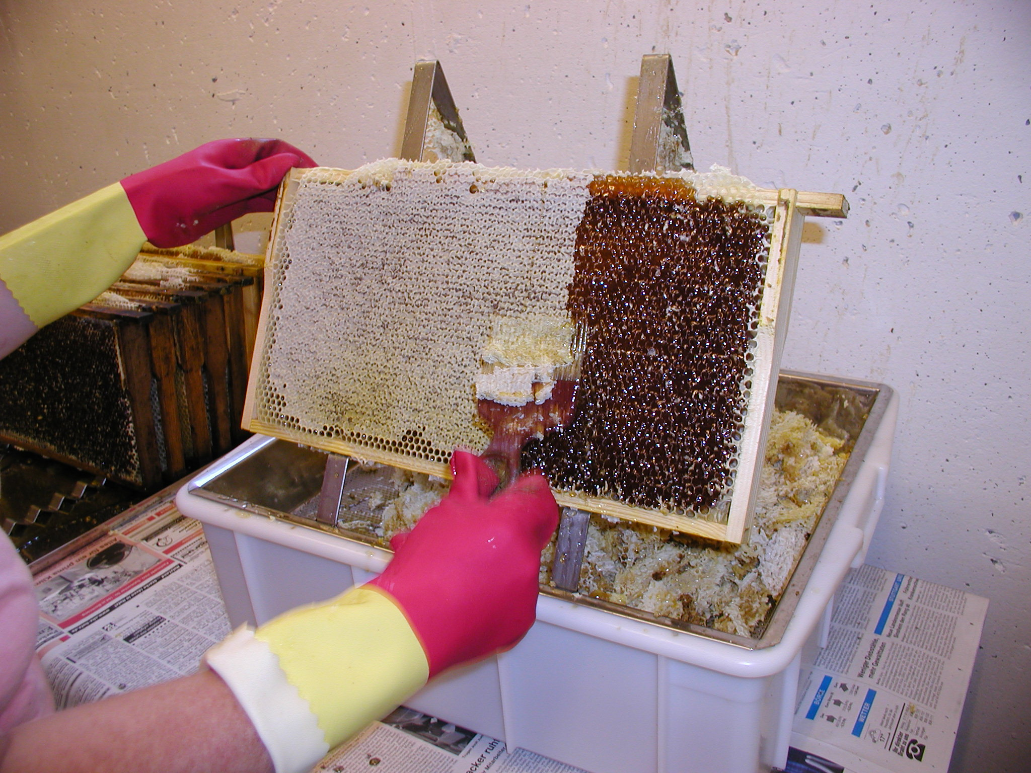 Comb with dark honey